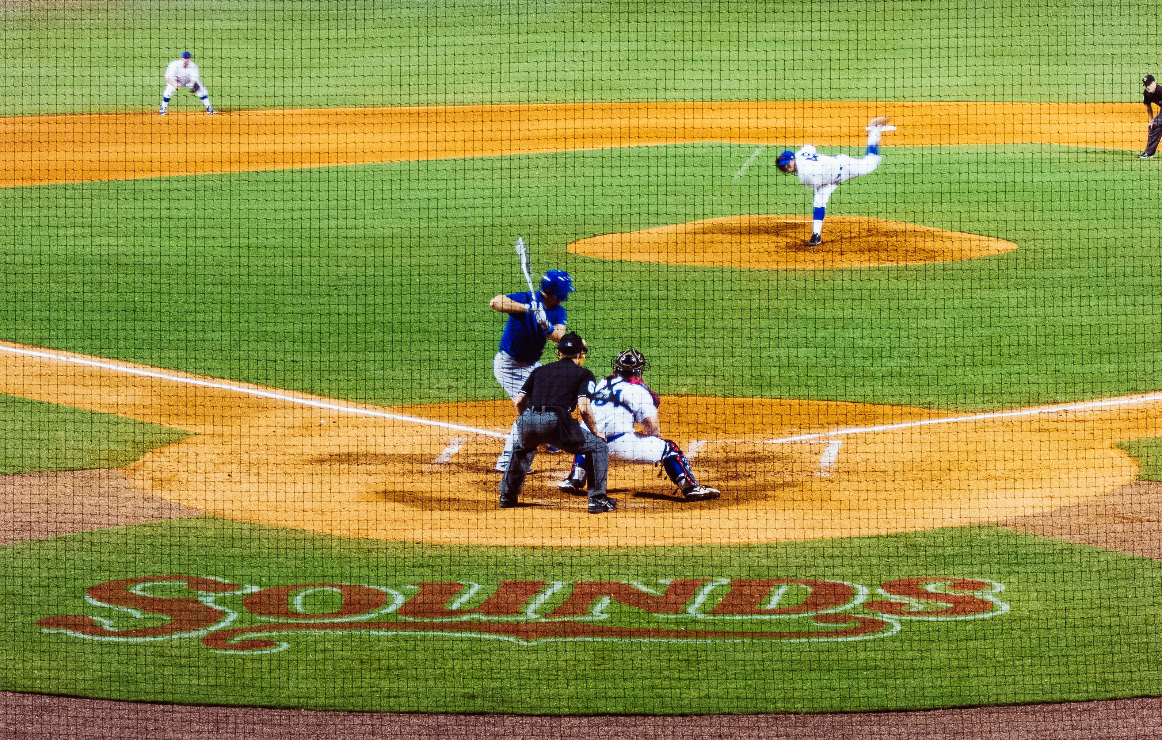 Nashville Sounds pitcher in motion (slow shutter speed with handheld small Canon S100) at First Tennessee Park, Nashville Sounds vs the Iowa Cubs on a beautiful July evening. The nearly full moon rose about 40 minutes before this shot.